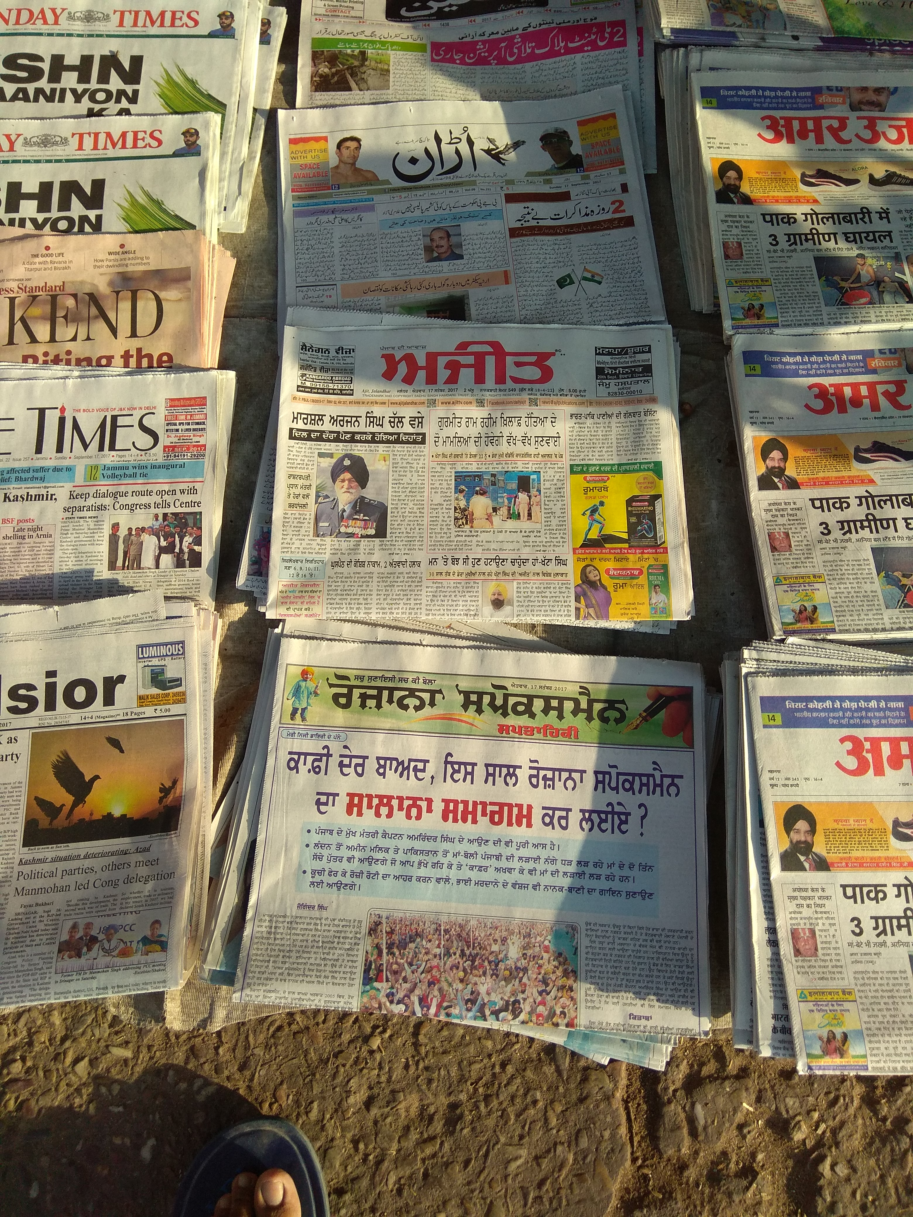 It shows Punjabi newspapers at Jammu,India(along with Hindi,Urdu,English) newspapers.